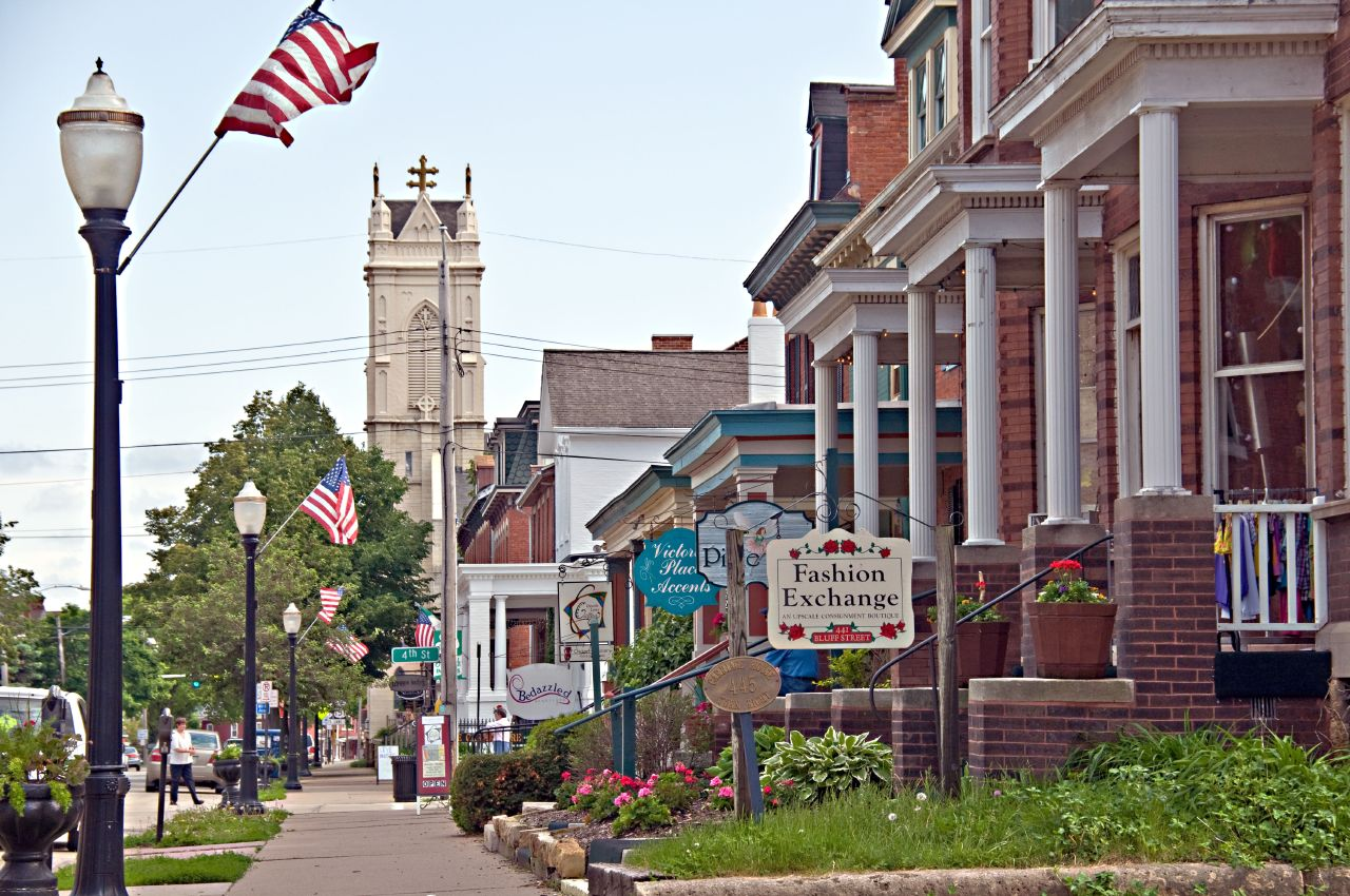 Shops on 4th Street in Dubuque, Iowa, USA